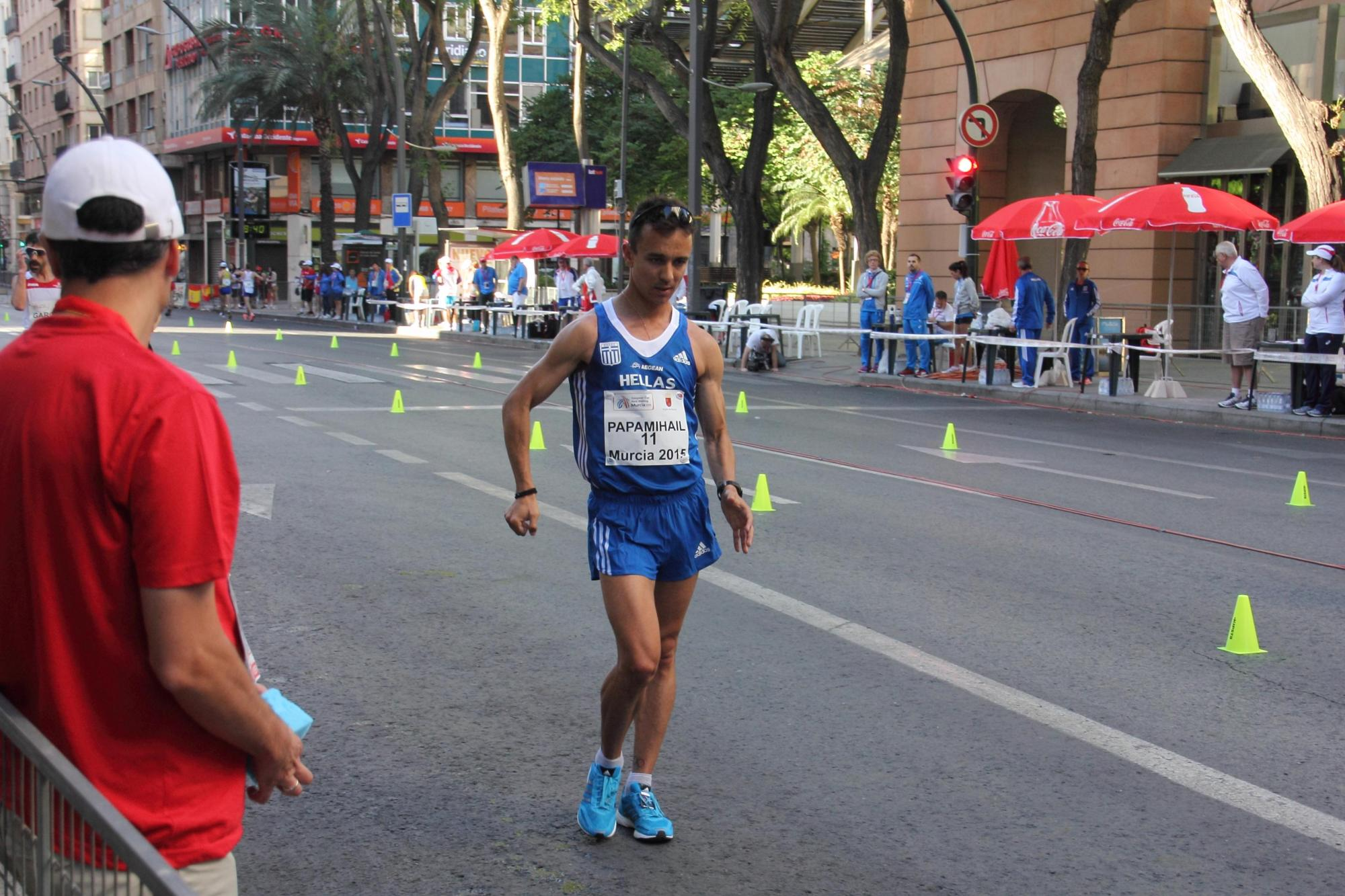 11-Aléxandros Papamihaíl (GRE) in the European Cup Race Walking 2015 (Murcia, Spain).